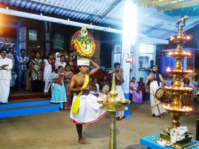 thidambu nritham exponent puthumana govindan namboothiri november 12